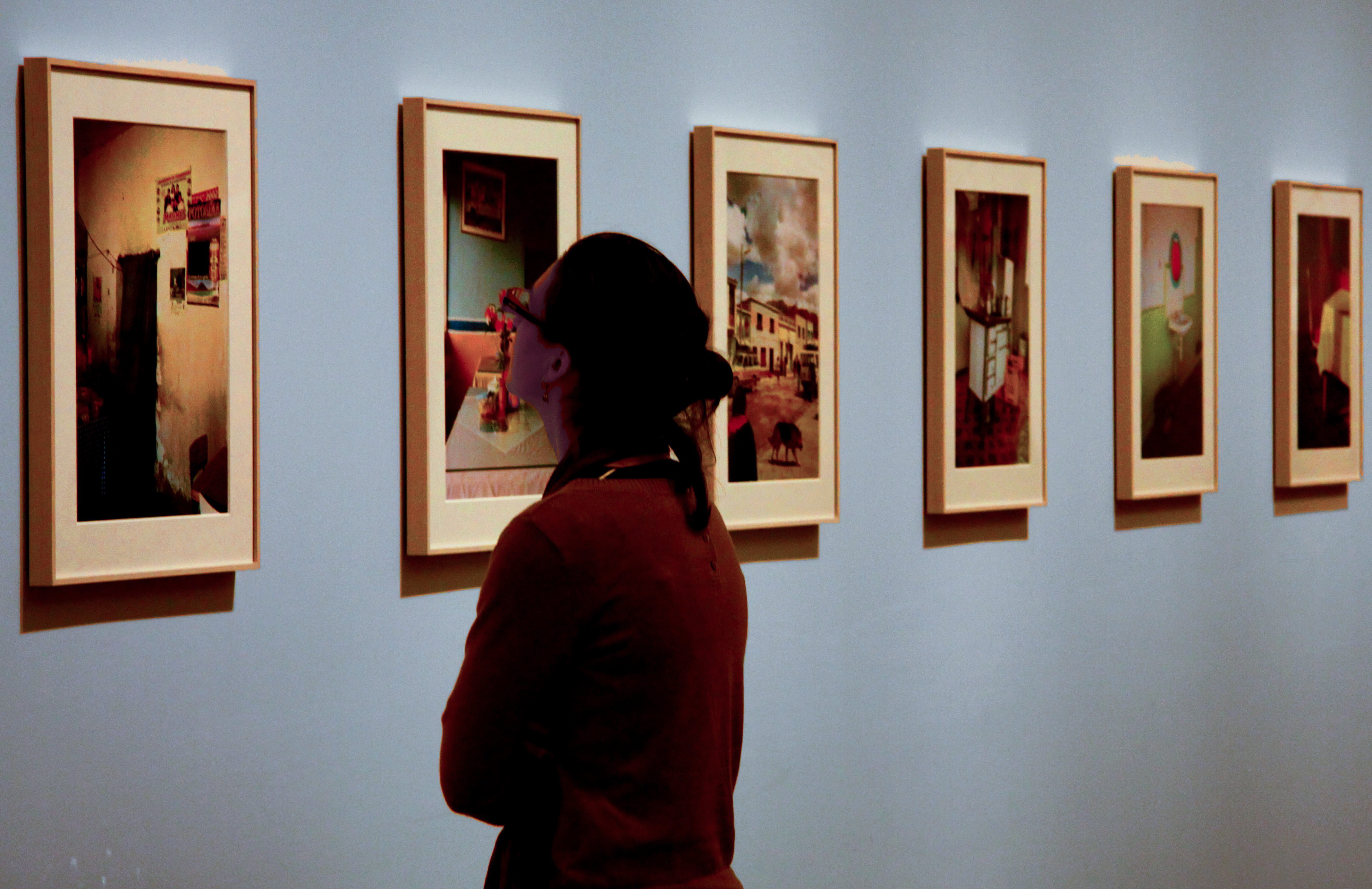 Raymond Depardon : Un moment si doux exhibition, from 14 November 2013 to 10 February 2014, Grand Palais, Paris.